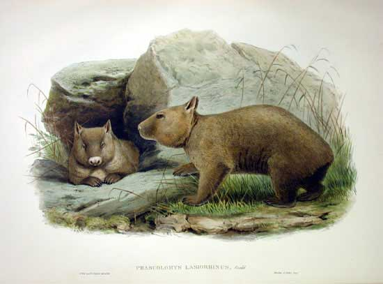 Lasiorhinus latifrons - hairy-nosed wombat